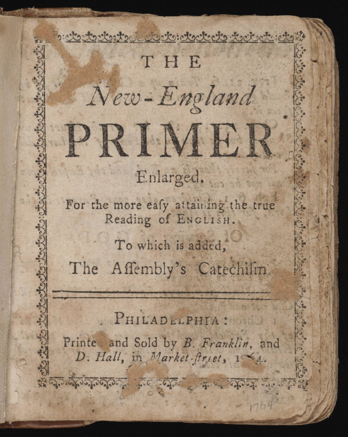 "The New-England primer enlarged. For the more easy attaining the true reading of English. To which is added, the Assemblys catechism Philadelphia: Printed and sold by B. Franklin, and D. Hall, in Market-street, 1[7]64." Benjamin Franklin, printer, 7 pages, black-and-white illustrations, 10 cm. Courtesy of the General Collection, Beinecke Rare Book and Manuscript Library, Yale University, New Haven, Conn.